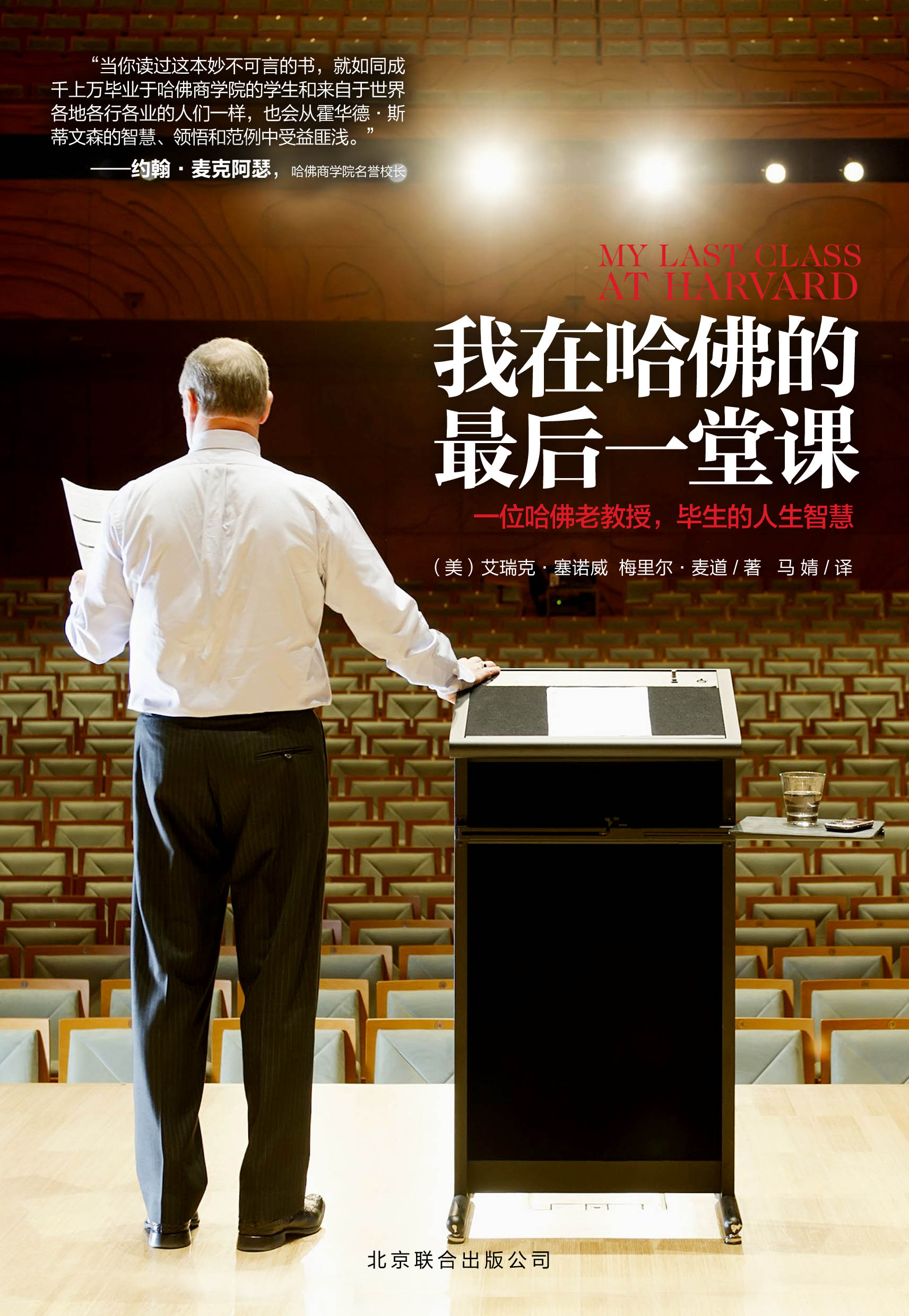 The Chinese translation of Eric Sinoway's book, Howard's Gift.